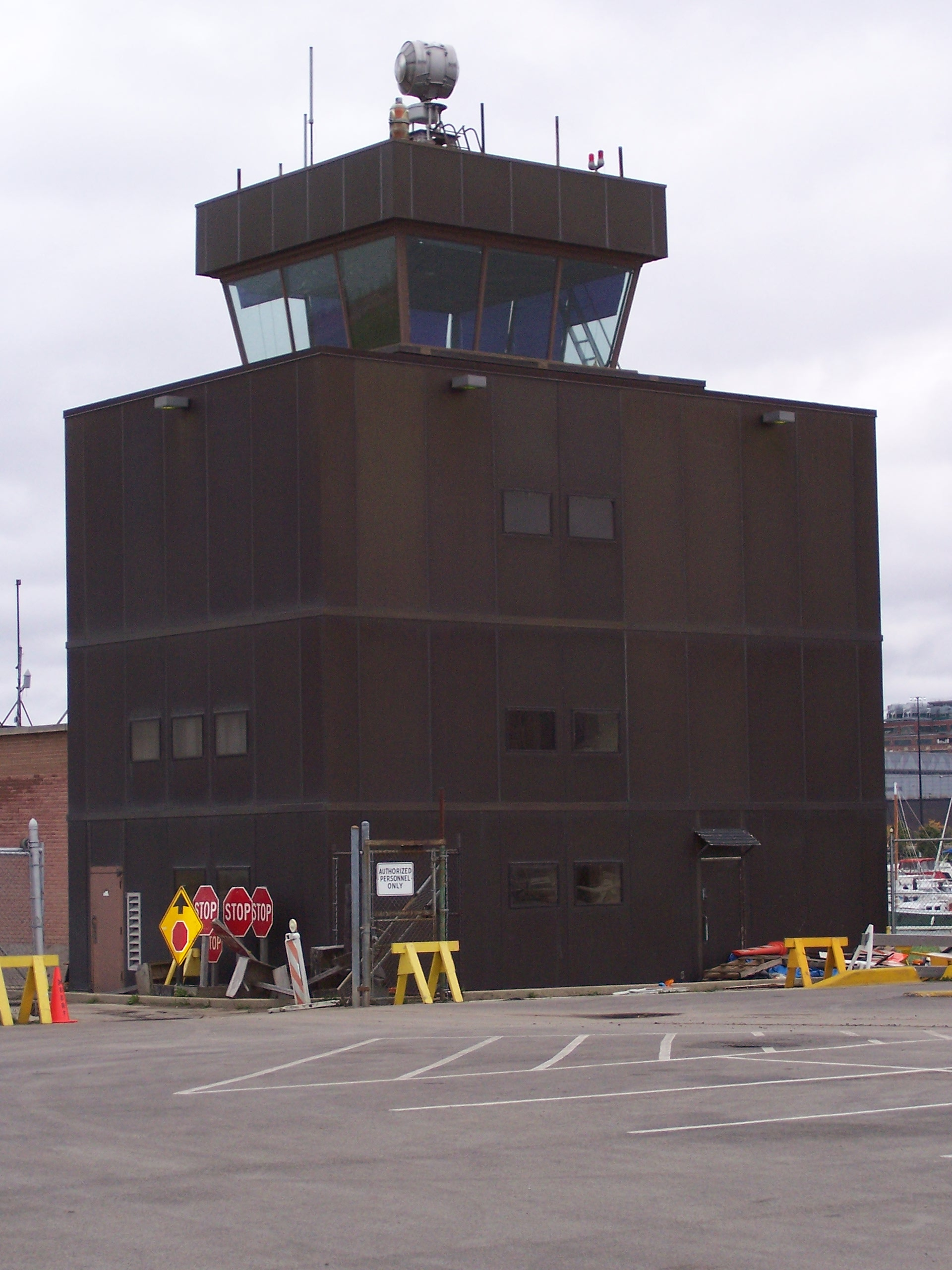 Tower of the former Merrill C. Meigs Field Airport in Chicago